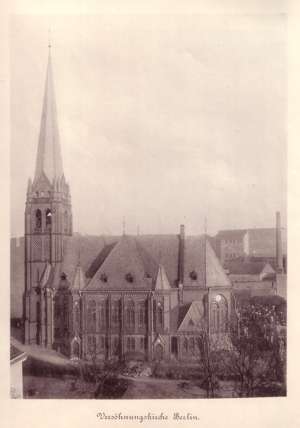 Picture of Versöhnungskirche, Berlin in an 1899 catalog of Schlesische Dachstein- & Falzziegel-Fabriken, vorm. G. Sturm (Freiwaldau Schlesien), page 43